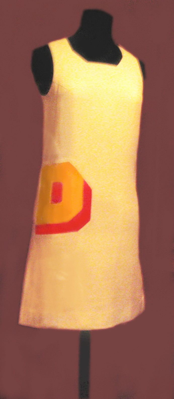 Dress, Foale & Tuffin, 1966. For more info, see V&A description page.